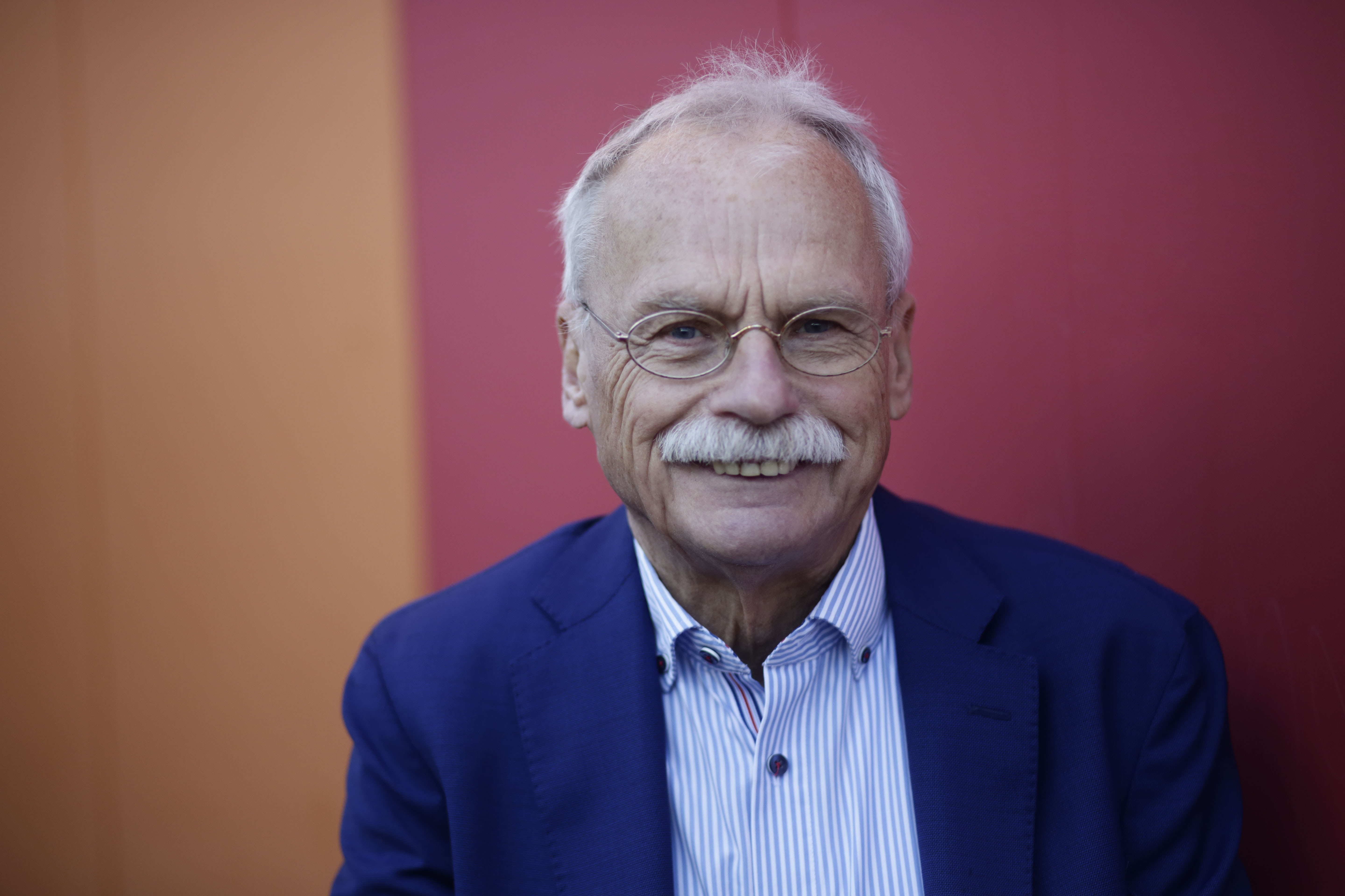 Prof. Dr. h.c. Ernst-Andreas Ziegler